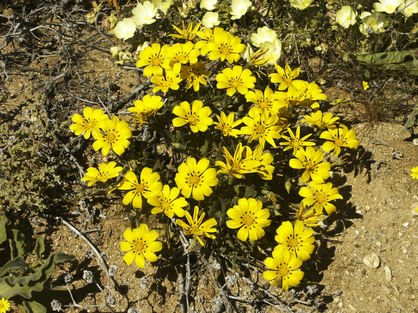 ( Gazania lichtensteinii Less.), flowering Desert, Namaqualand, Goegap Nature Reserve, Northern Cape, South Africa